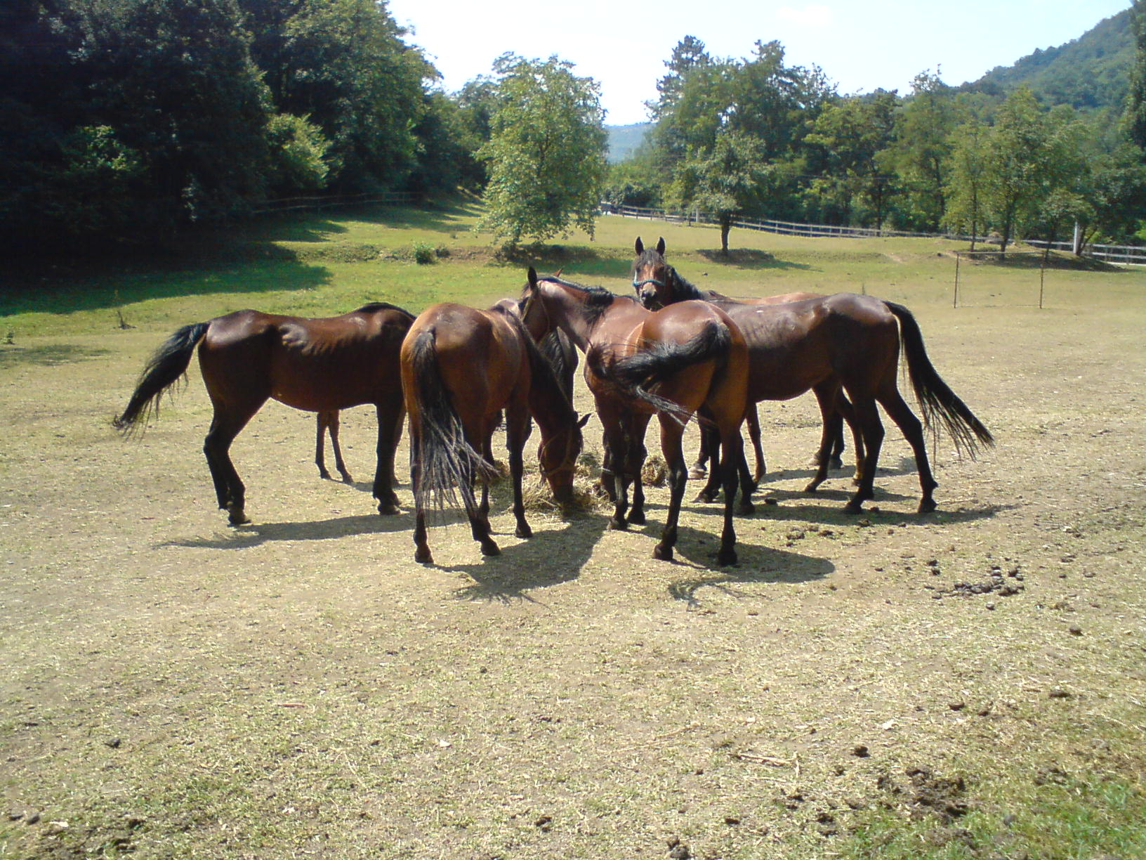 Herd of Horses on pasture